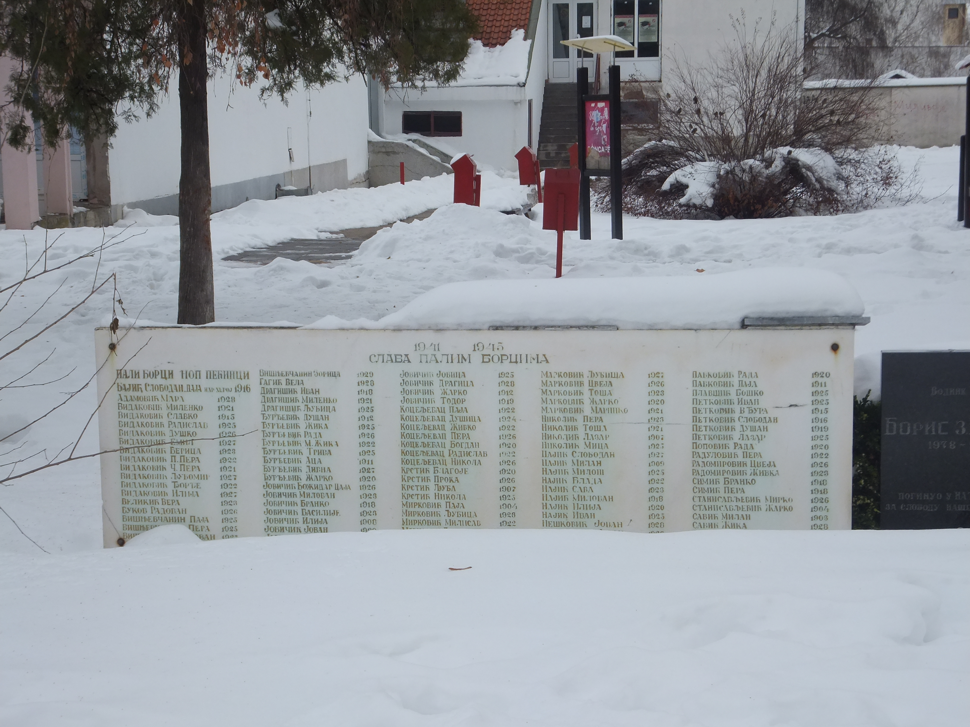 A monument to the victims of the fascist terror in the park in the center of Pećinci